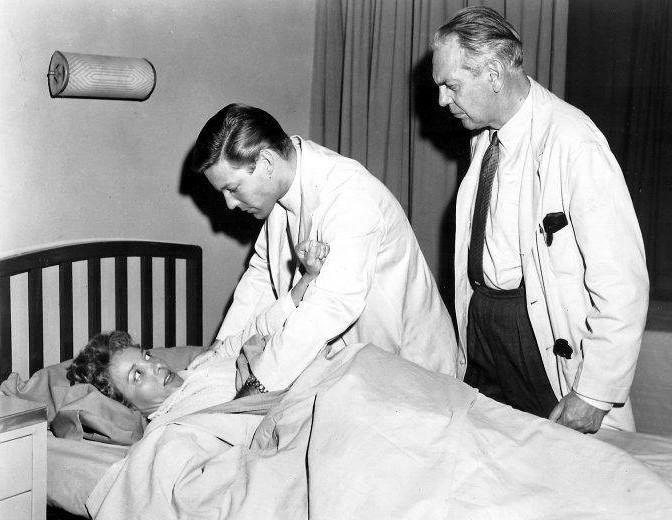 Photo from the first episode of the television program Dr. Kildare. Beverly Garland is the patient Kildare (Richard Chamberlain) is having difficulty with while Dr. Gillespie (Raymond Massey) tries to help.